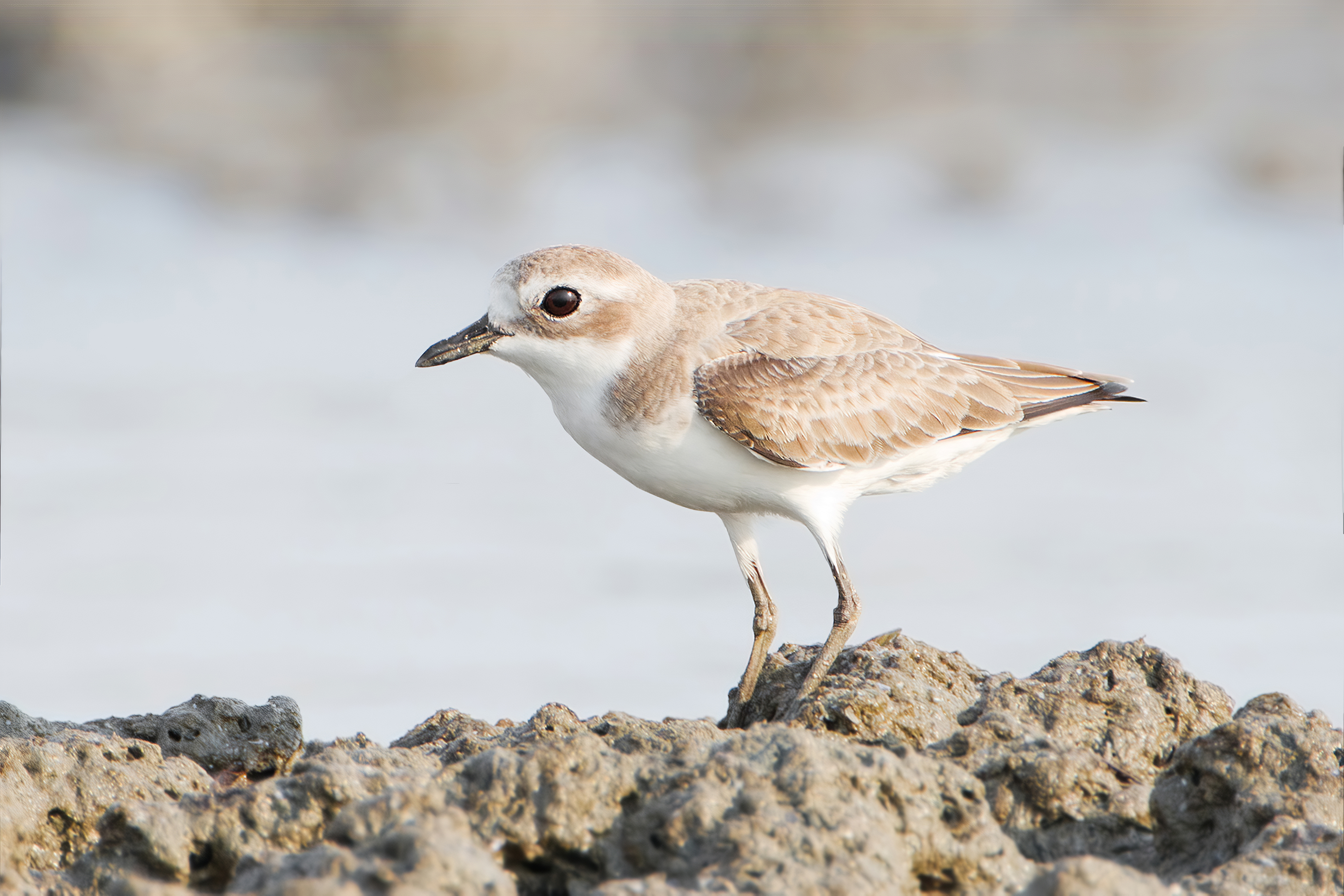 Lesser Sand Plover (Charadrius mongolus), Laem Phak Bia, Ban Laem, Phetchaburi, Thailand